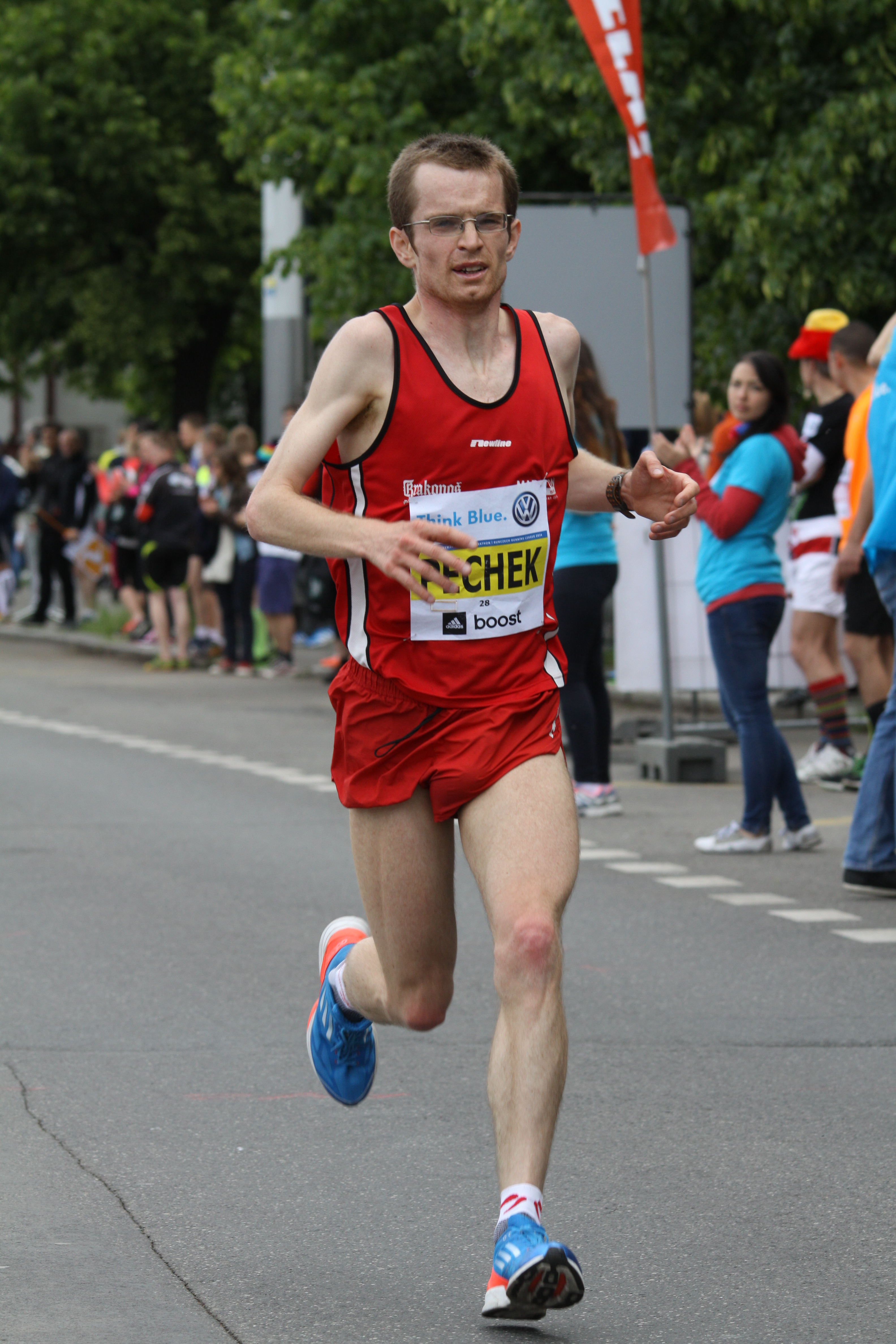 Petr Pechek during Prague International Marathon in 2014, Czech Republic